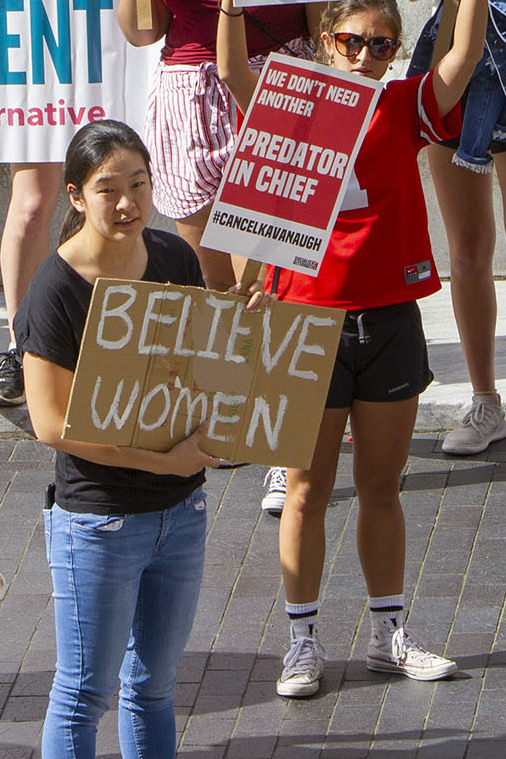 From a protest in Columbus, Ohio